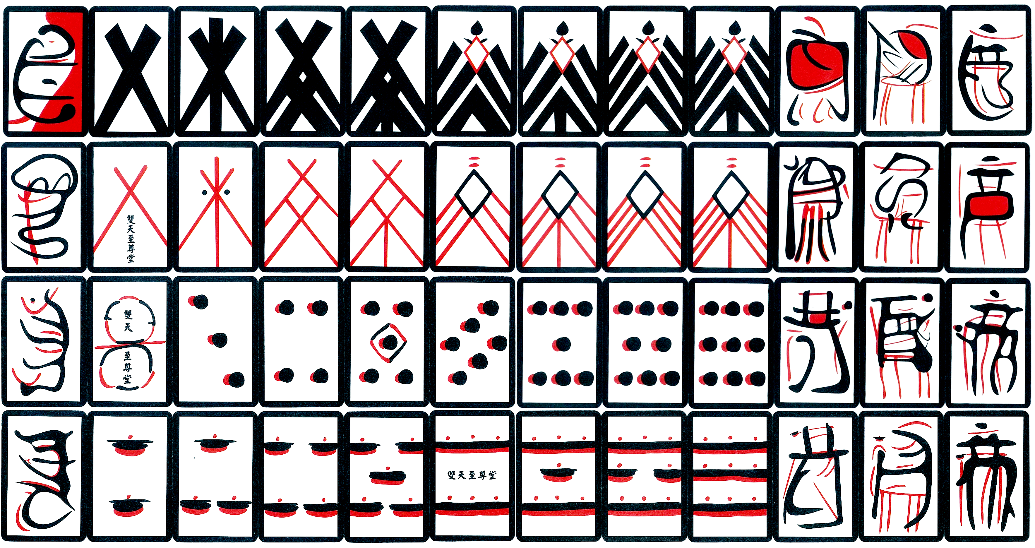 Komatsu-fuda, (Tenshō karuta), Reproduction.